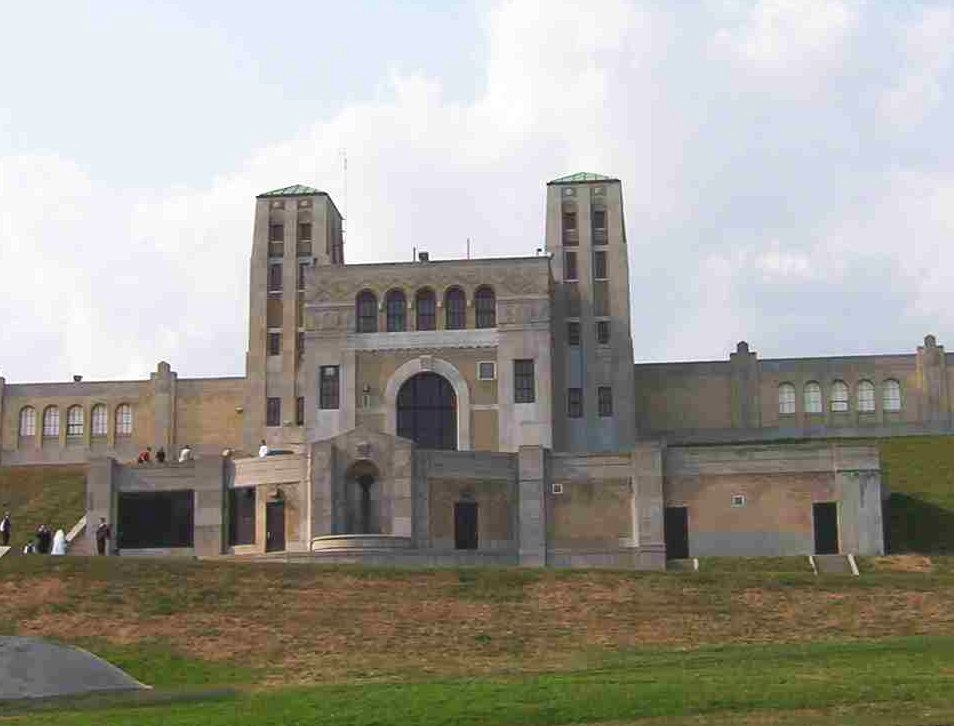 Cropped version of :Image:RCHarris.JPG, taken by Aardvark114, 2003